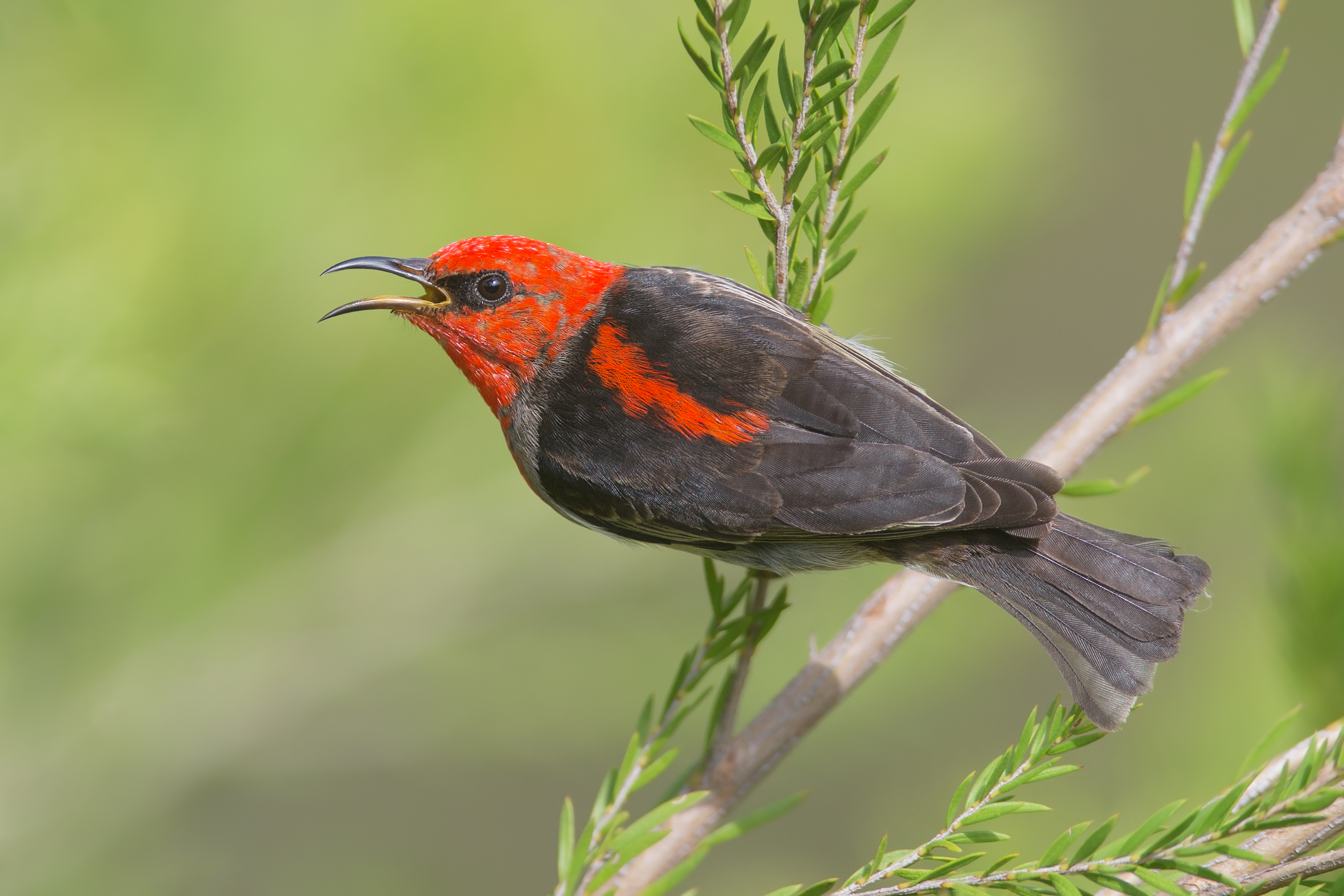 Scarlet Myzomela (Myzomela sanguinolenta) male, Windsor Downs Nature Reserve, New South Wales, Australia